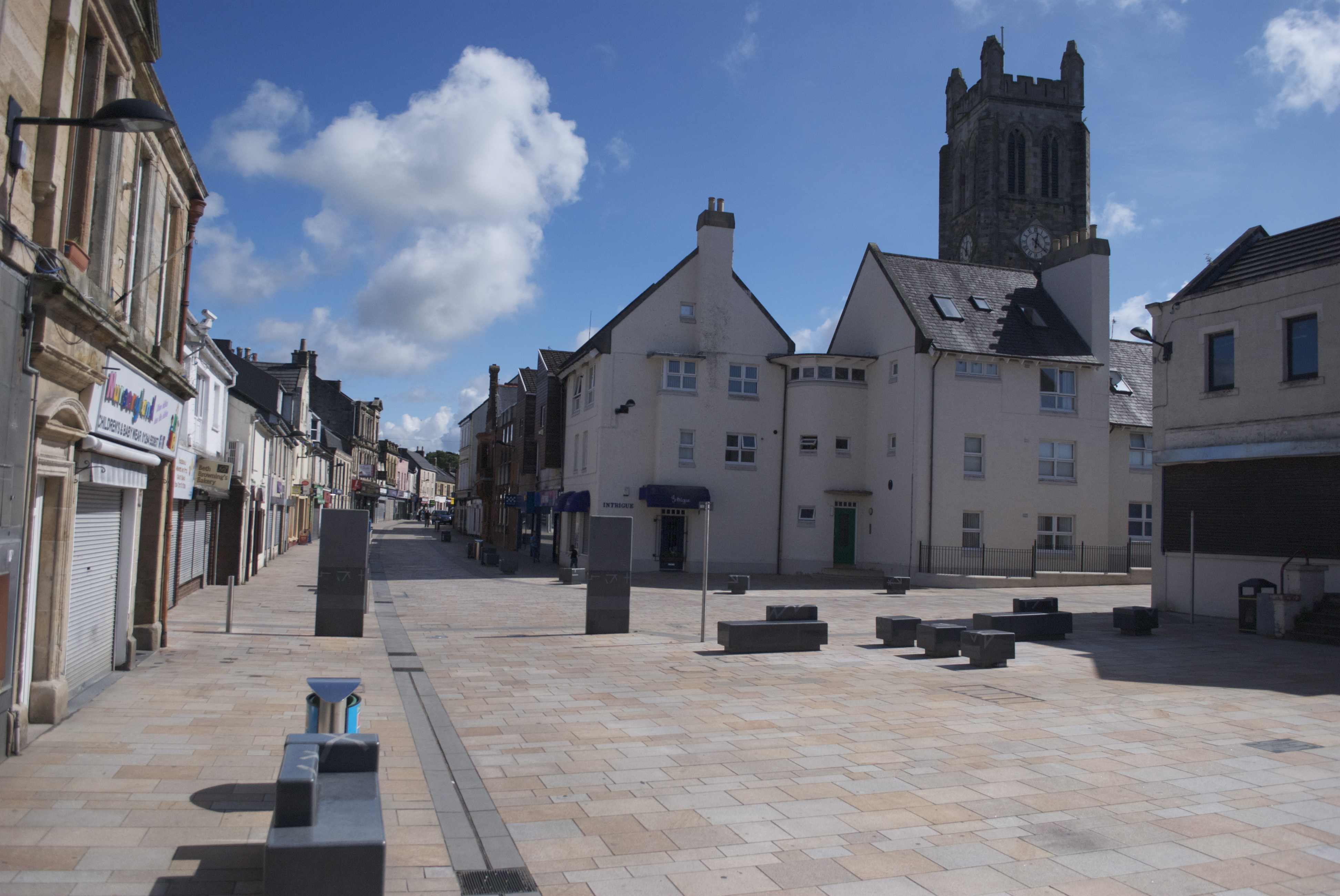 Main Street, Kilwinning, on Sunday just after noon before an open papingo shoot, to be held that afternoon at the Kilwinning Abbey tower seen to the right of Main Street. Approximate location NS3025843343